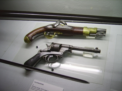 Fortifeid city museum, old guns. (Naarden, Netherlands)